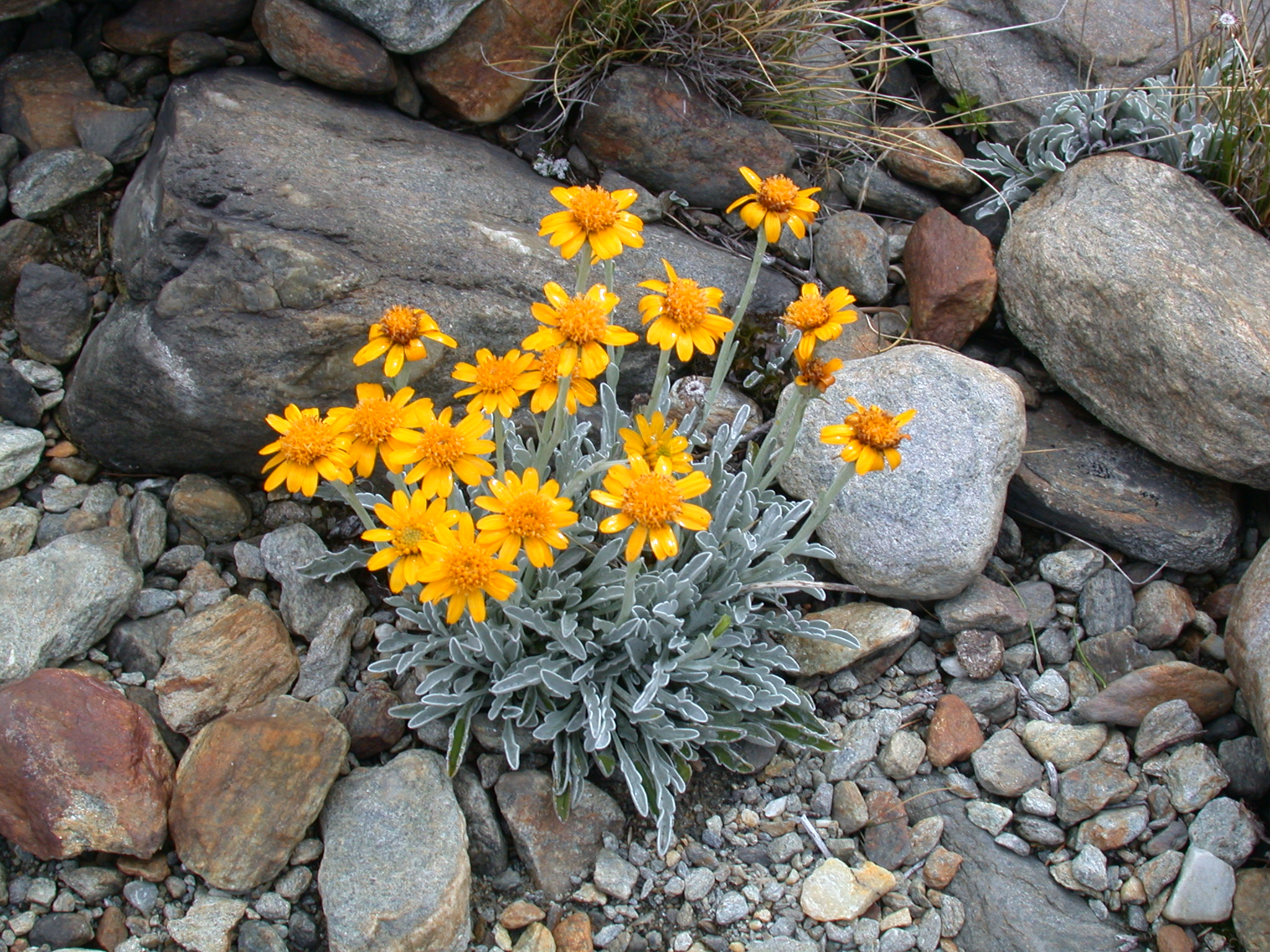 Senecio halleri (Asteraceae); between Kreuzboden and Saas Almagell, Canton of Valais, Switzerland